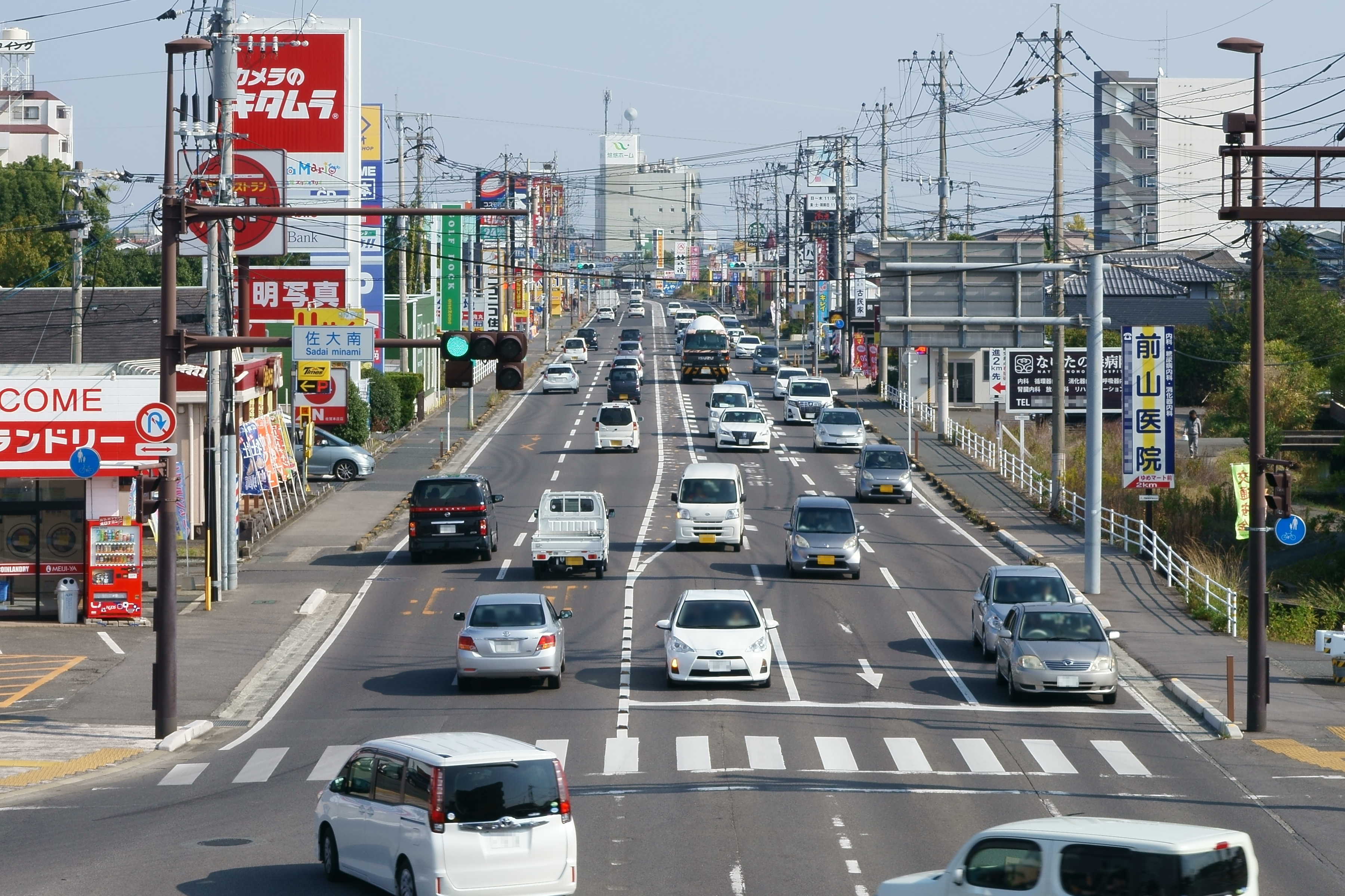 National Route No.208, taken from the pedway at Sadai-Minami Intersection in Honjo, Honjo-machi, Saga city, Saga prefecture.